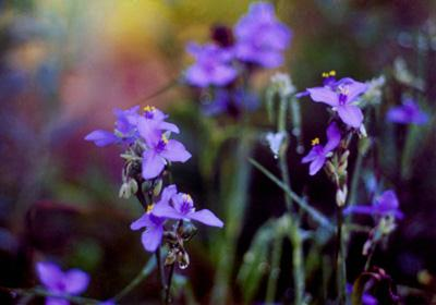 I took this picture in mid-June 2002 using a Nikon FM2 with an 85mm lens and 400s Kodak Max Versatility. I release this picture into the public domain; you may not claim you took this photo yourself, but you do not need my permission to use it in any other way for any reason. Koyaanis Qatsi